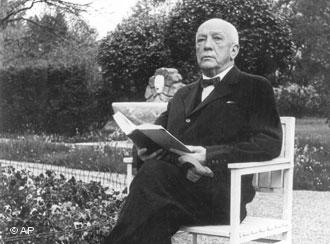 Richard Strauss at age 74, photographed in his garden at his country home at Garmisch-Partenkirchen, Germany, in 1938